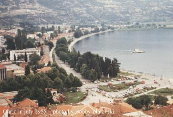 Ohrid in July 1985